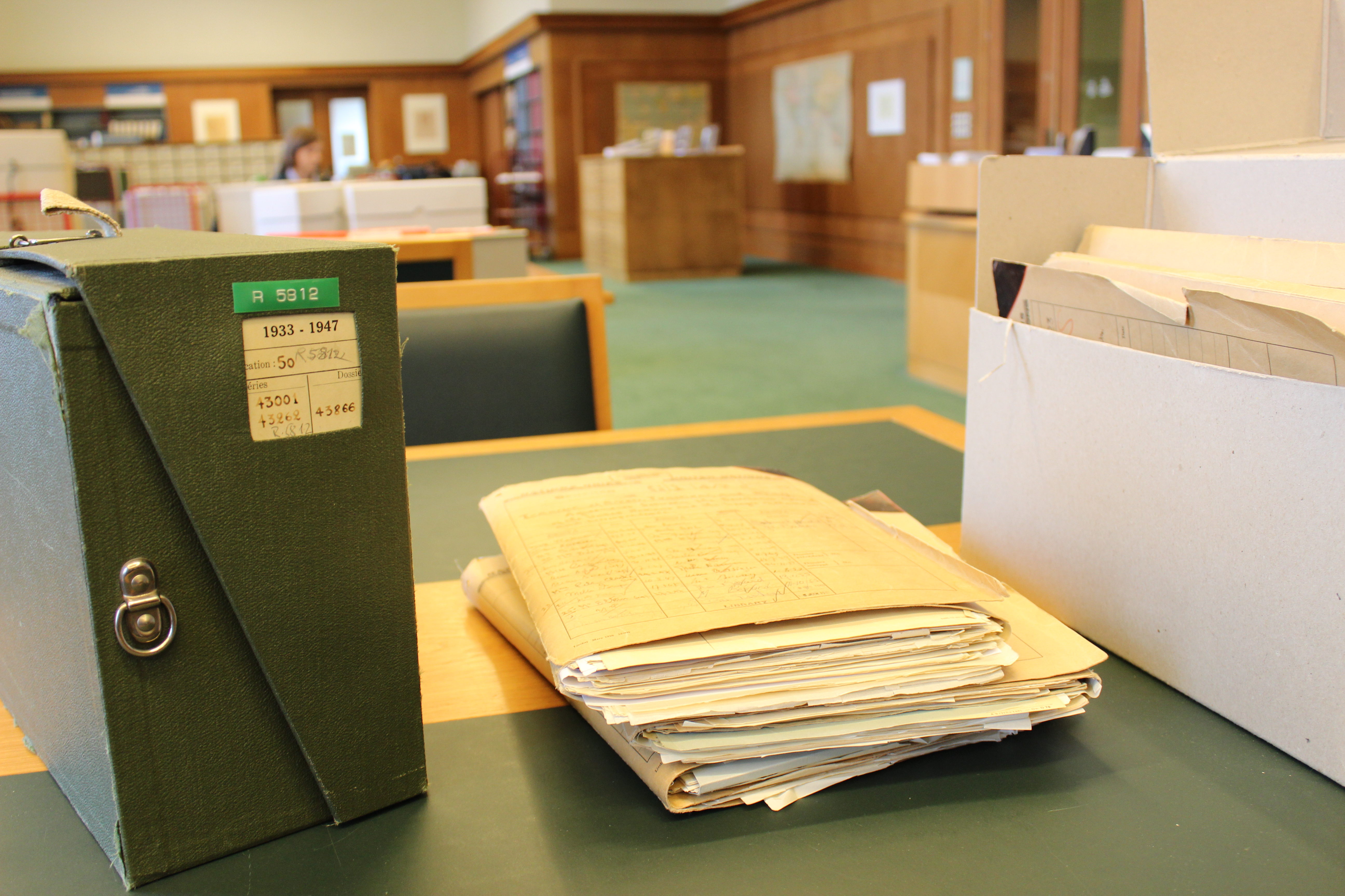 League of Nations archives in the John D. Rockefeller Jr. League of Nations and UNOG Archives Reading Room in Geneva, Switzerland. UN Photo/Stefan Vukotic